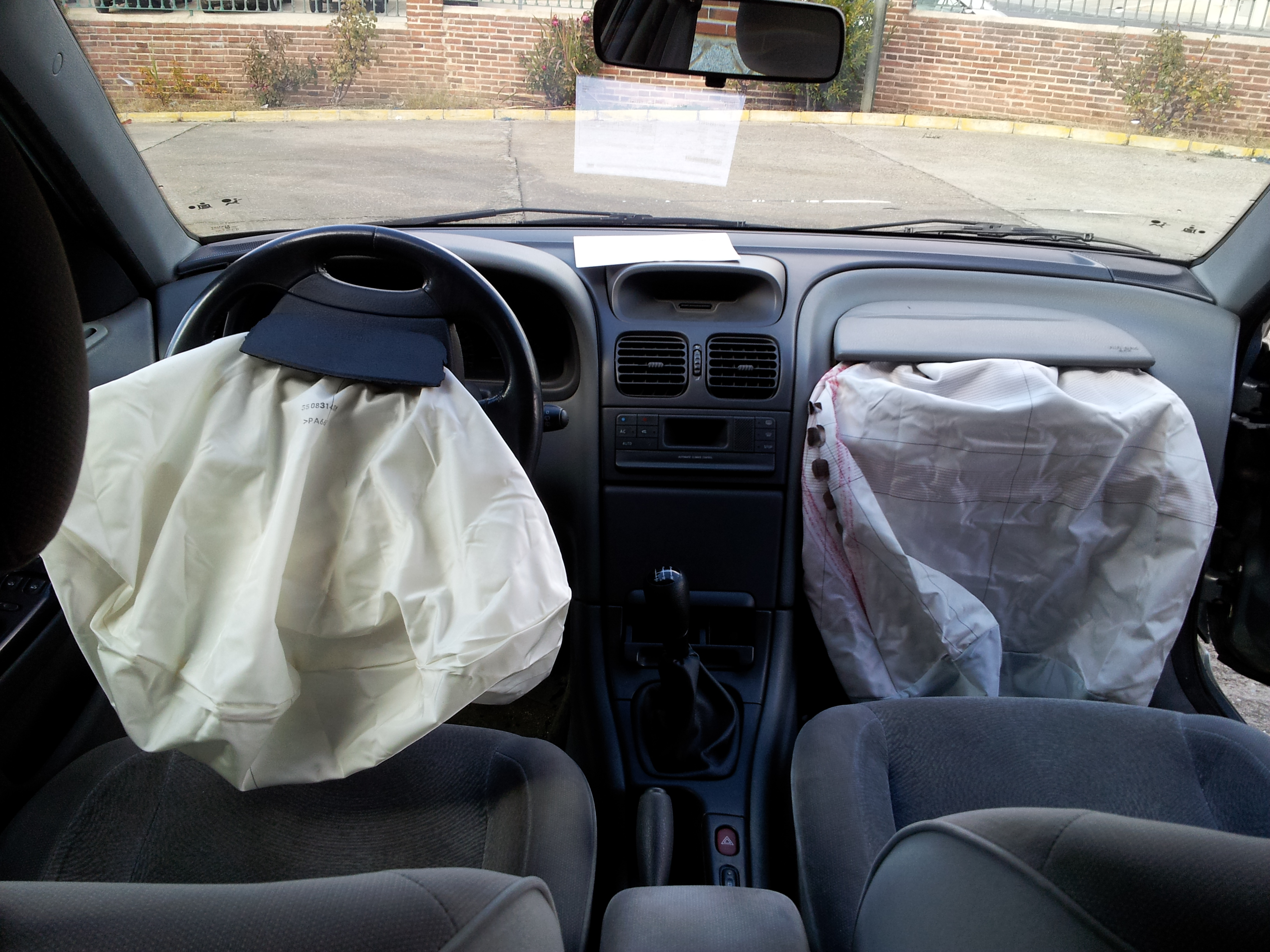 Renault Laguna with its deployed airbags.